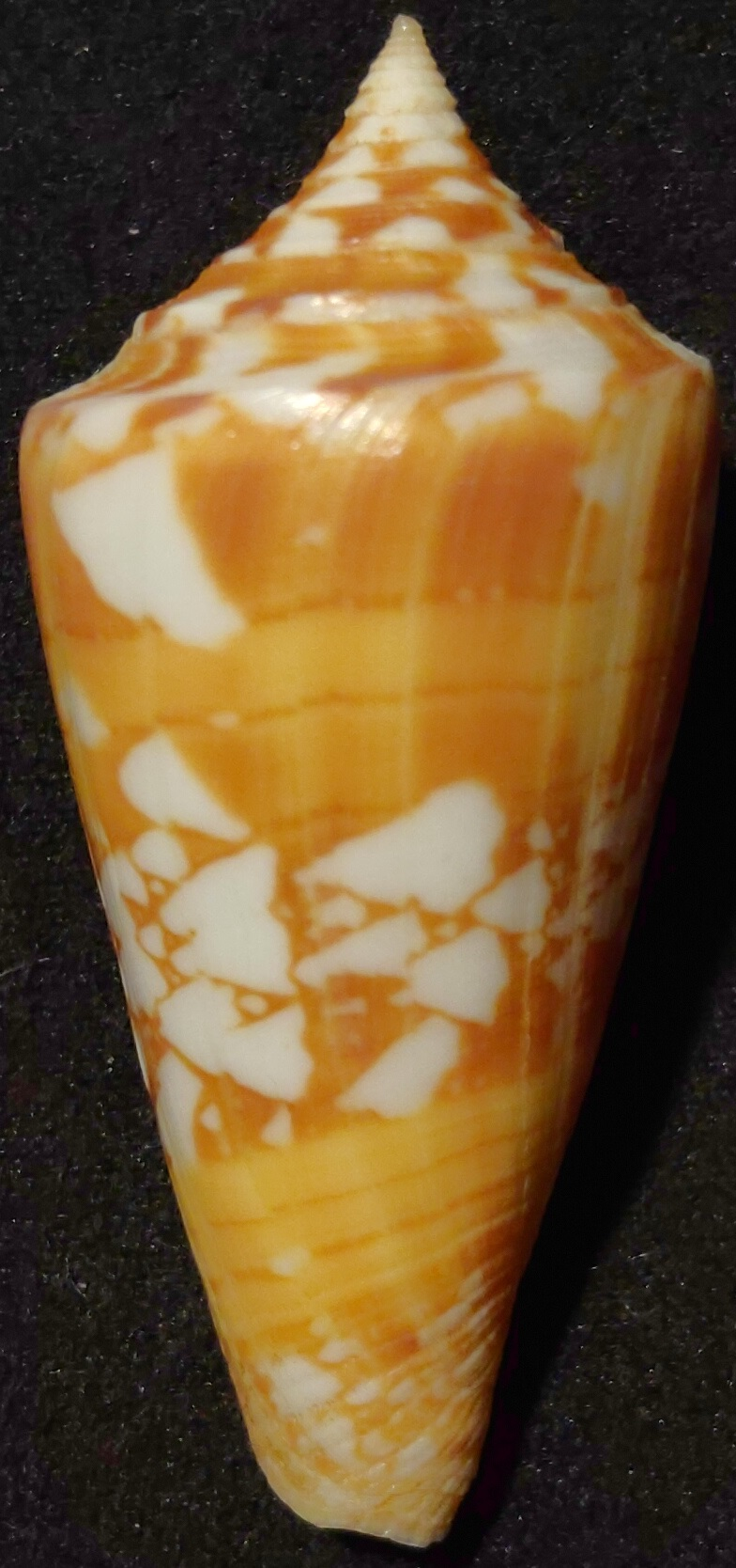 Conus Amadis Aurantia (var.) Back